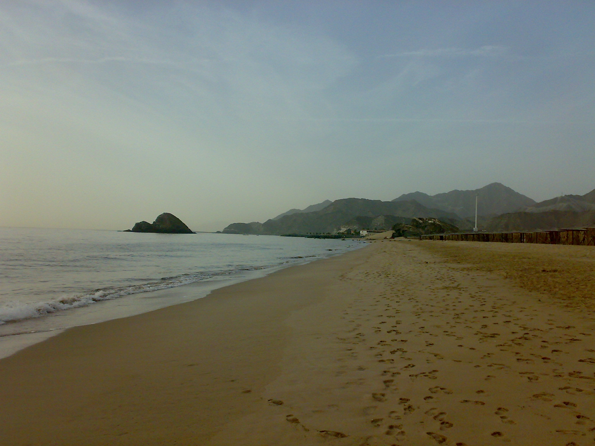 Snoopy Island and beach in Sharm area, south of Dabna city, Fujeirah emirate, eastern UAE.